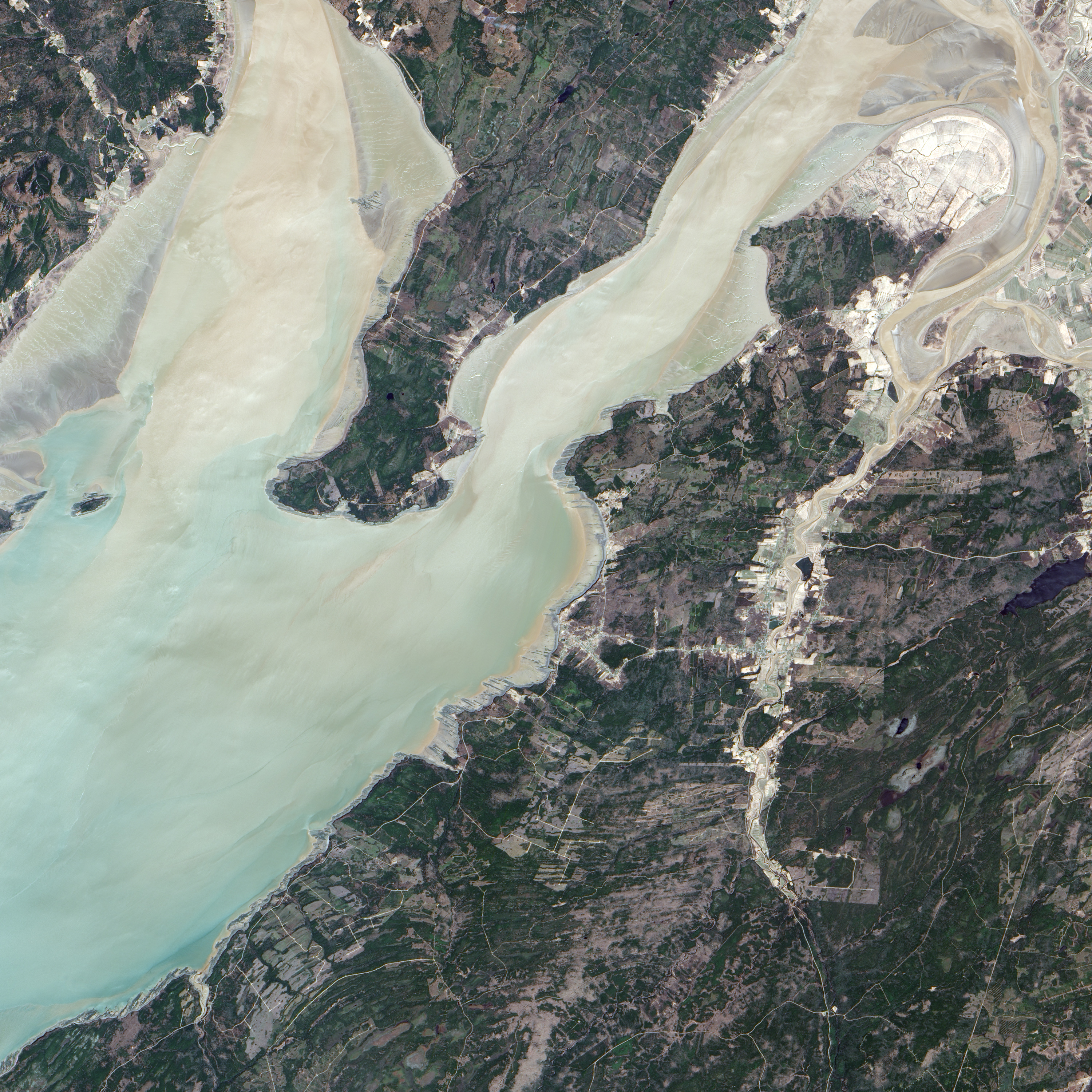 The Advanced Land Imager (ALI) on NASA’s Earth Observing-1 satellite captured this true-color image of the Joggins Fossil Cliffs region. The fossil cliffs trace a curving line through the middle of this image, with Cumberland Basin in the west and a small village in the east. Sunlight and sediment color the water of Cumberland Basin pastel. On land, colors vary from deep green vegetation to brown bare rock to gray paved surfaces. Roads cut crooked lines through the landscape. The cliffs appear gray-beige, giving way to buff color nearest the water.